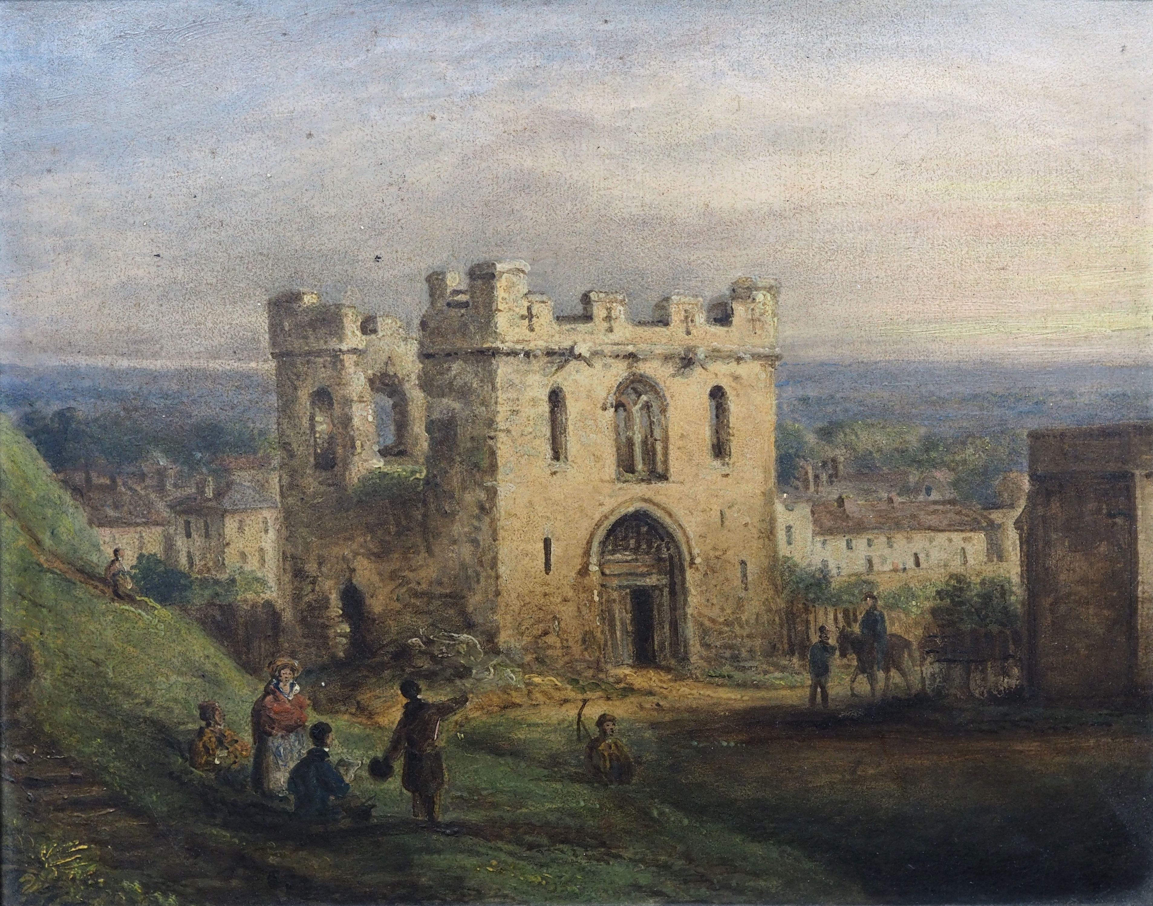 Painting of the gateway of Cambridge Castle, England. Photographed at Cheffins Auction Rooms, Cambridge, where it was sold as lot 192 on 12 June 2019. The auctioneer's description was 'English School, 19th Century The Gateway to Cambridge Castle, Cambridge inscribed verso "sketched and painted on the spot as it appear June 1841" oil on board 20 x 26cm (8 x 10in)'